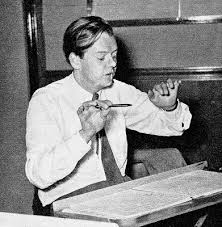 Jurriaan Andriessen - Componist (1925-1996)